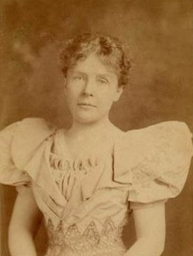 Rose Cleveland, before 1918